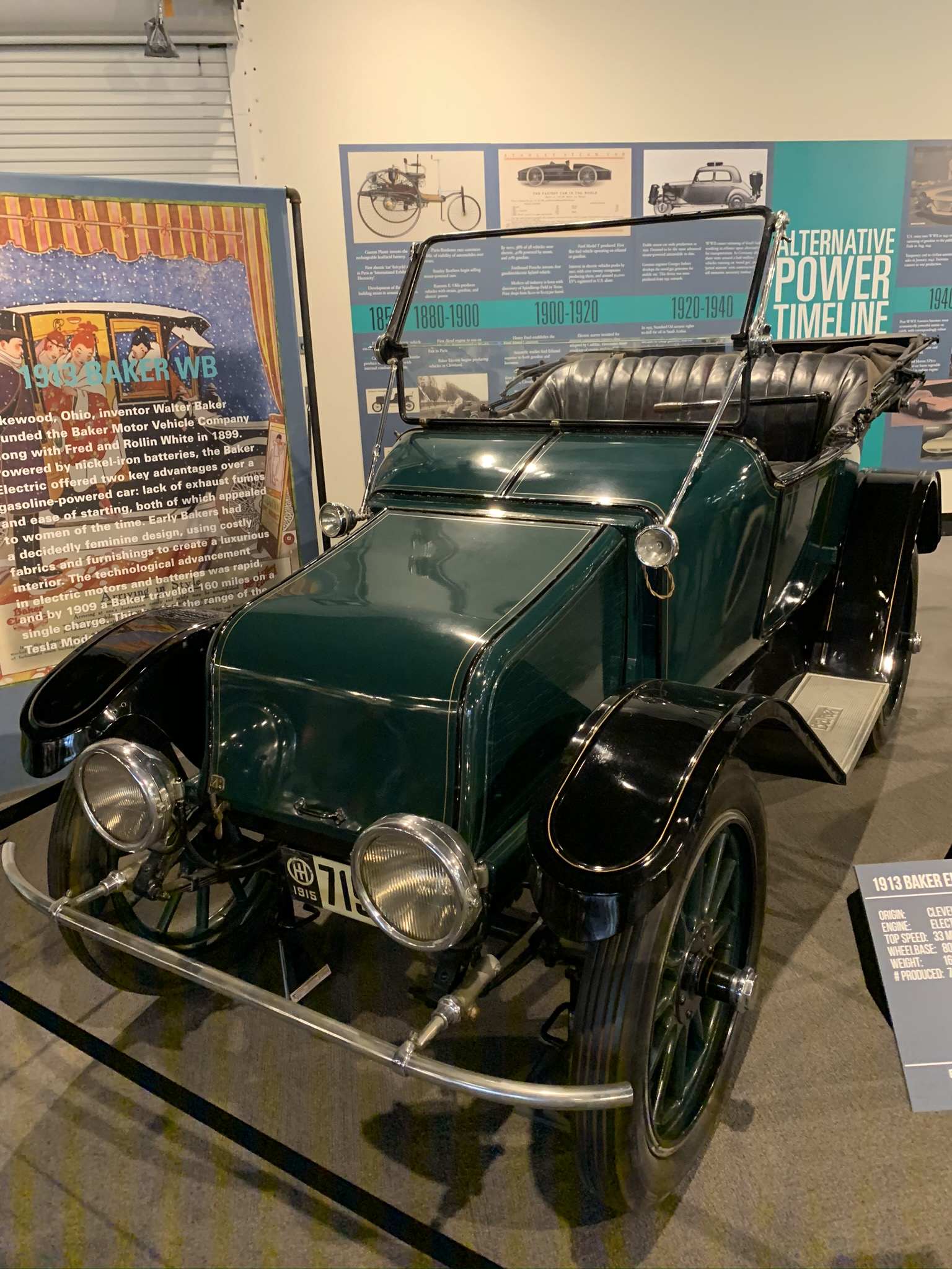 1913 Baker Electric at Crawford Auto-Aviation Museum